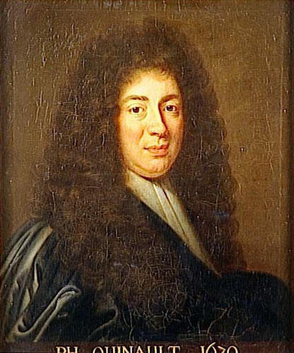 Philippe Quinault (1635-1688), French playwright and opera libretist